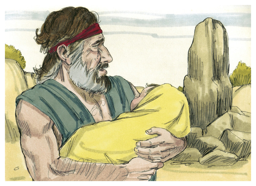 Biblical illustration of Book of Genesis Chapter 35